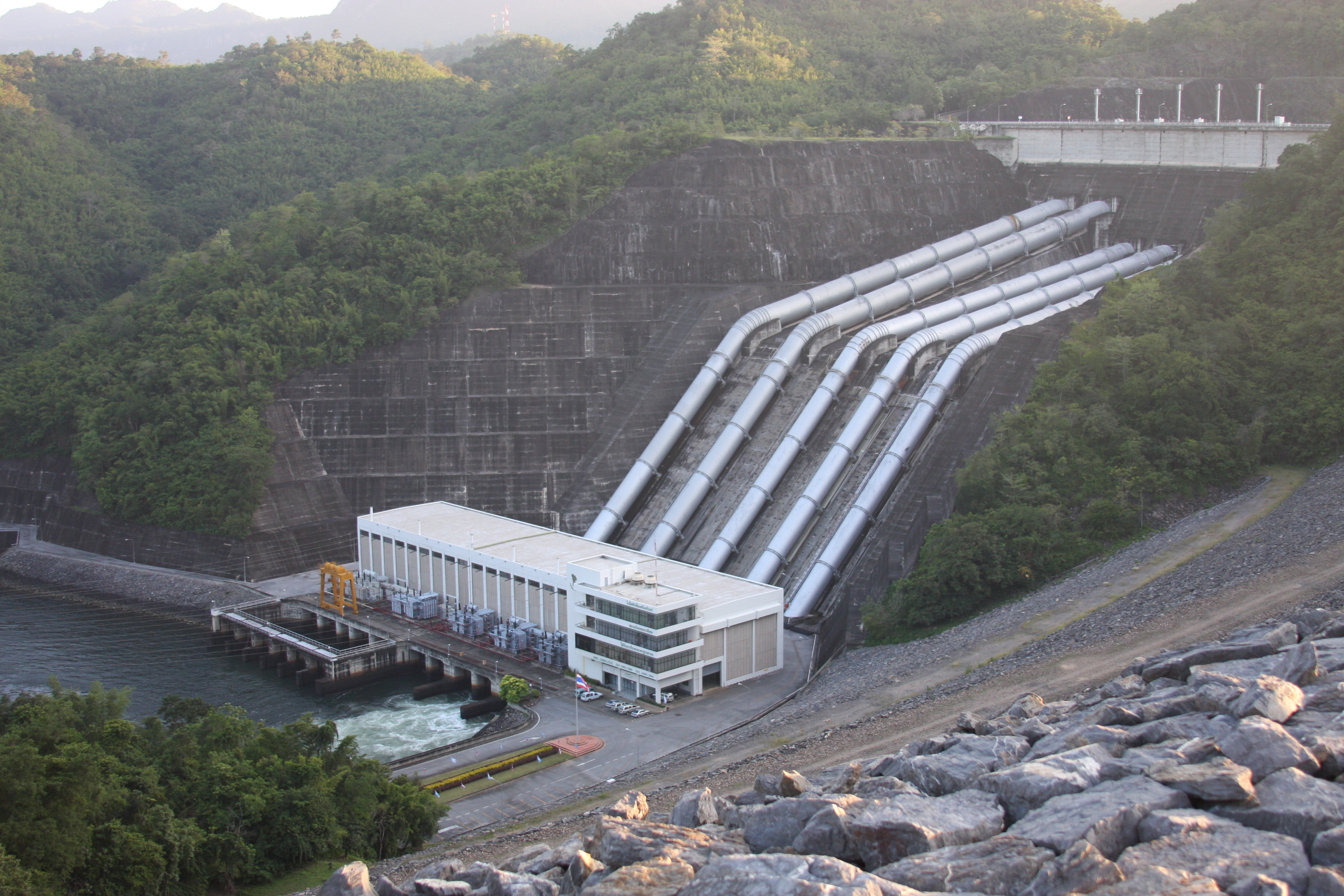 Si Nakharin Dam and Hydropower Station, province Kanchanaburi, western Thailand